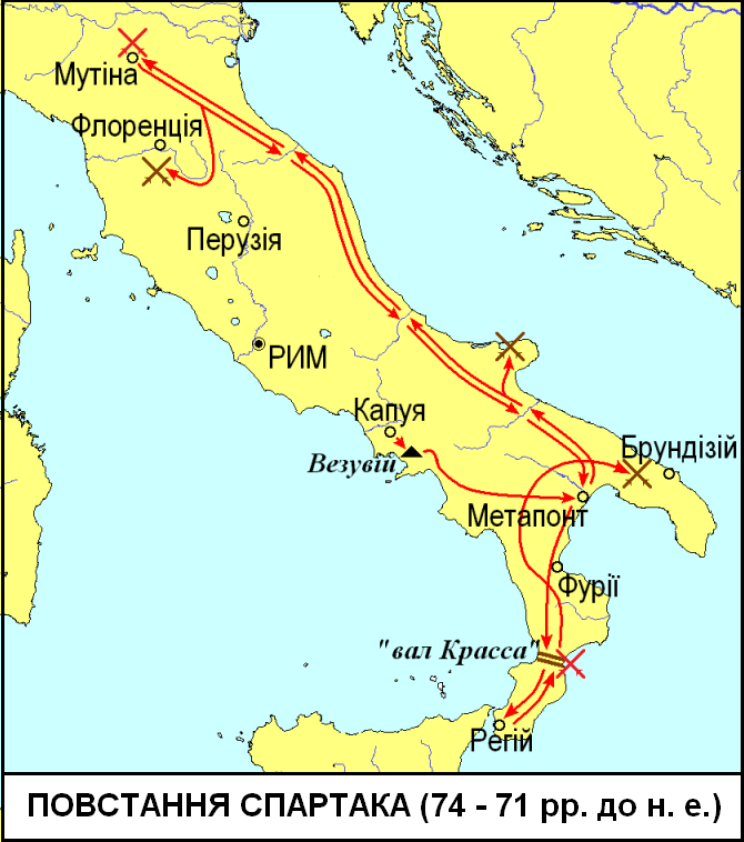 Spartacus rebellion (ukrainian)